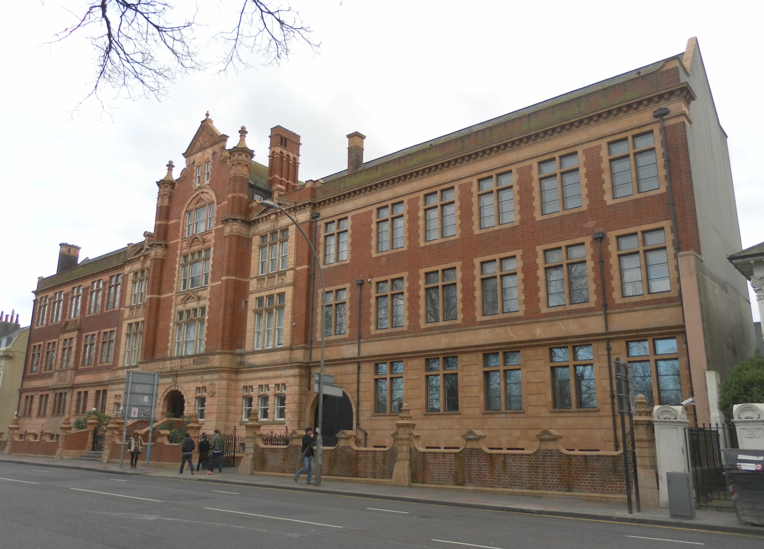 Former Brighton Municipal Technical College, Richmond Terrace, Brighton, City of Brighton and Hove, England. Built by Francis May in 1895; now in residential use. Listed at Grade II by English Heritage (IoE Code 481153)